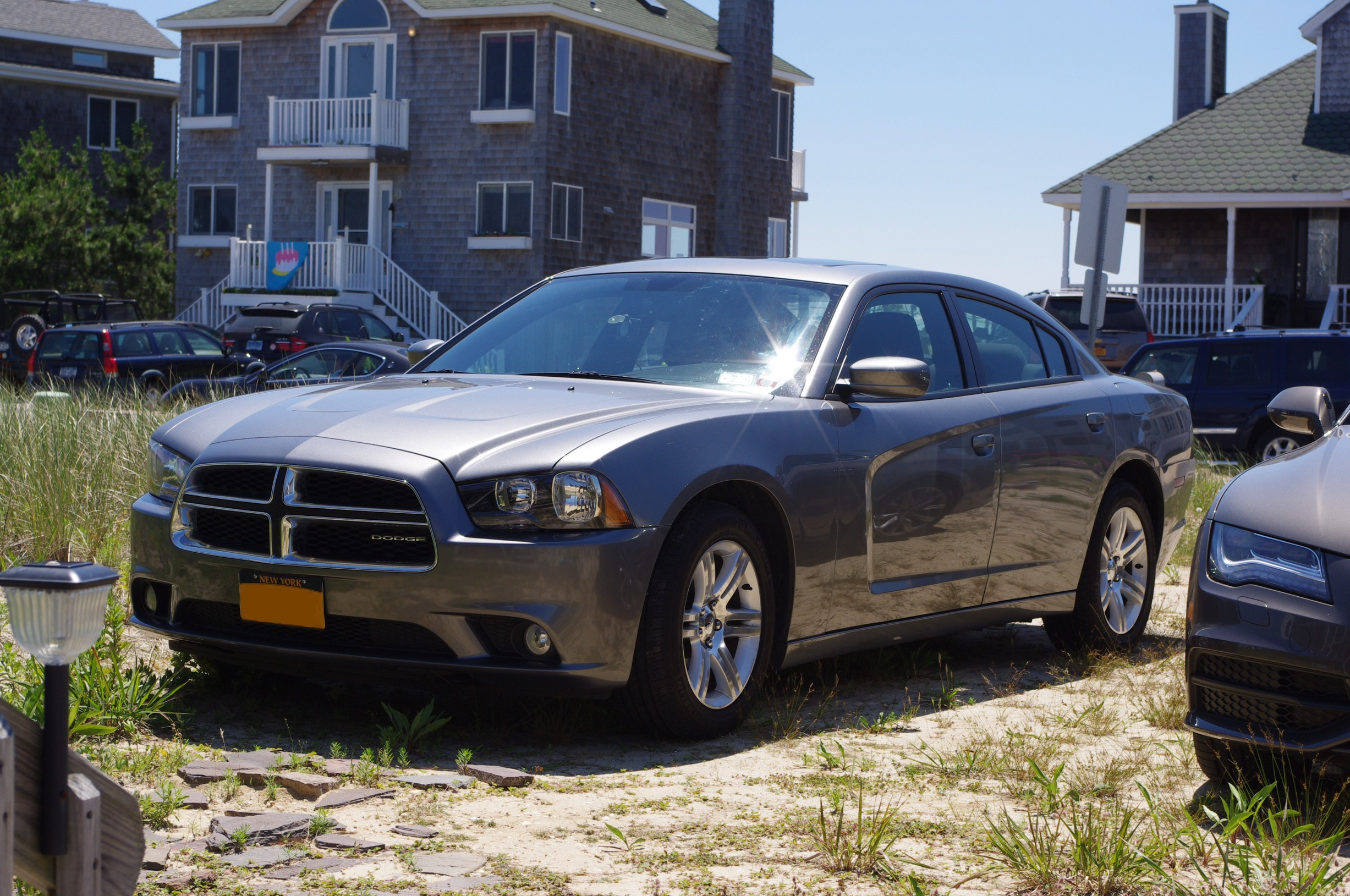 Dodge Charger, Hamptons.